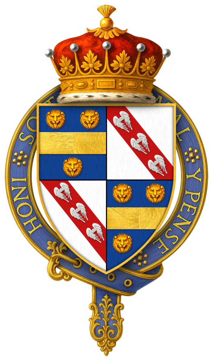 Sir William de la Pole, 4th Earl of Suffolk, KG HOPE, W. H. St. John, ‘’The Stall Plates of the Knights of the Order of the Garter 1348 – 1485: A Series of Ninety Full-Sized Coloured Facsimiles with Descriptive Notes and Historical Introductions,’’ Westminster: Archibald Constable and Company LTD, 1901. “ Sir William de la Pole, Count of Dreux, Earl of Pembroke, and Marquess and Duke of Suffolk, K.G. 1421-1450... arms, quarterly: 1 and 4, azure a fess and three leopards' heads gold (for De la Pole); 2 and 3, silver on a bend gules three pairs of wings silver (for Wingfield)... ” The Stall plate remains intact within the fourteenth stall, on the north side of the quire.